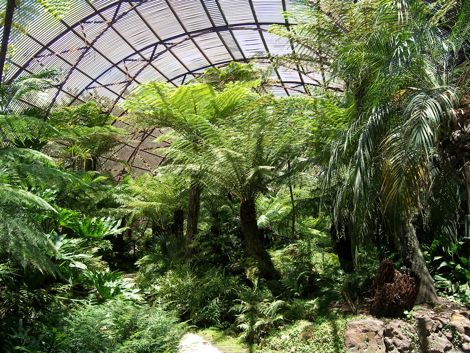 Photograph inside the fernery at Rippon Lea estate in Rippon Lea, Victoria, Australia.